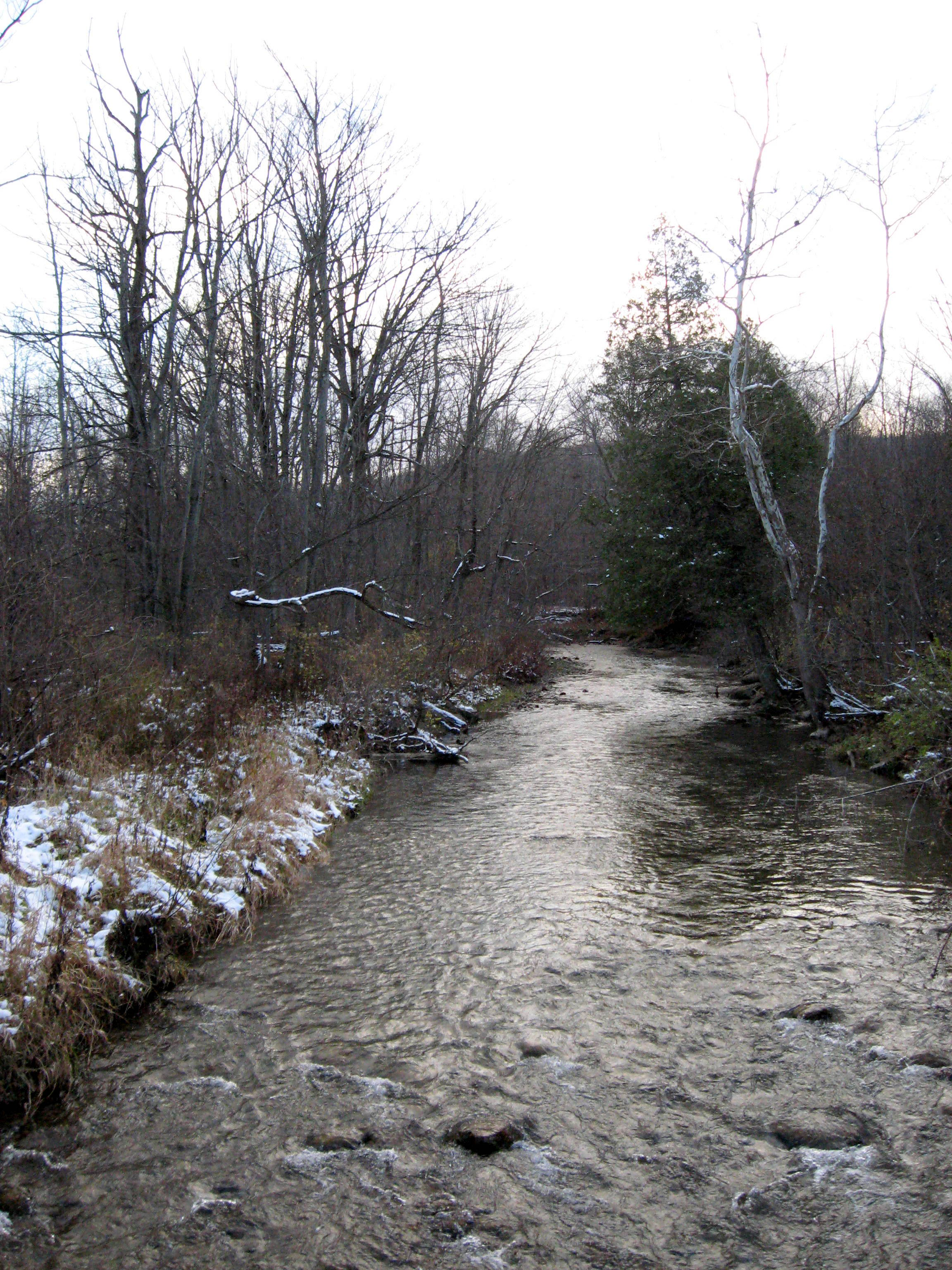 Butternut Creek, looking south from bridge in Jamesville Beach Park